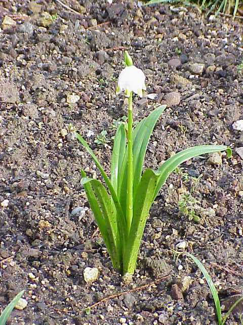 Species: Leucojum vernum Family: Amaryllidaceae Image No. 1